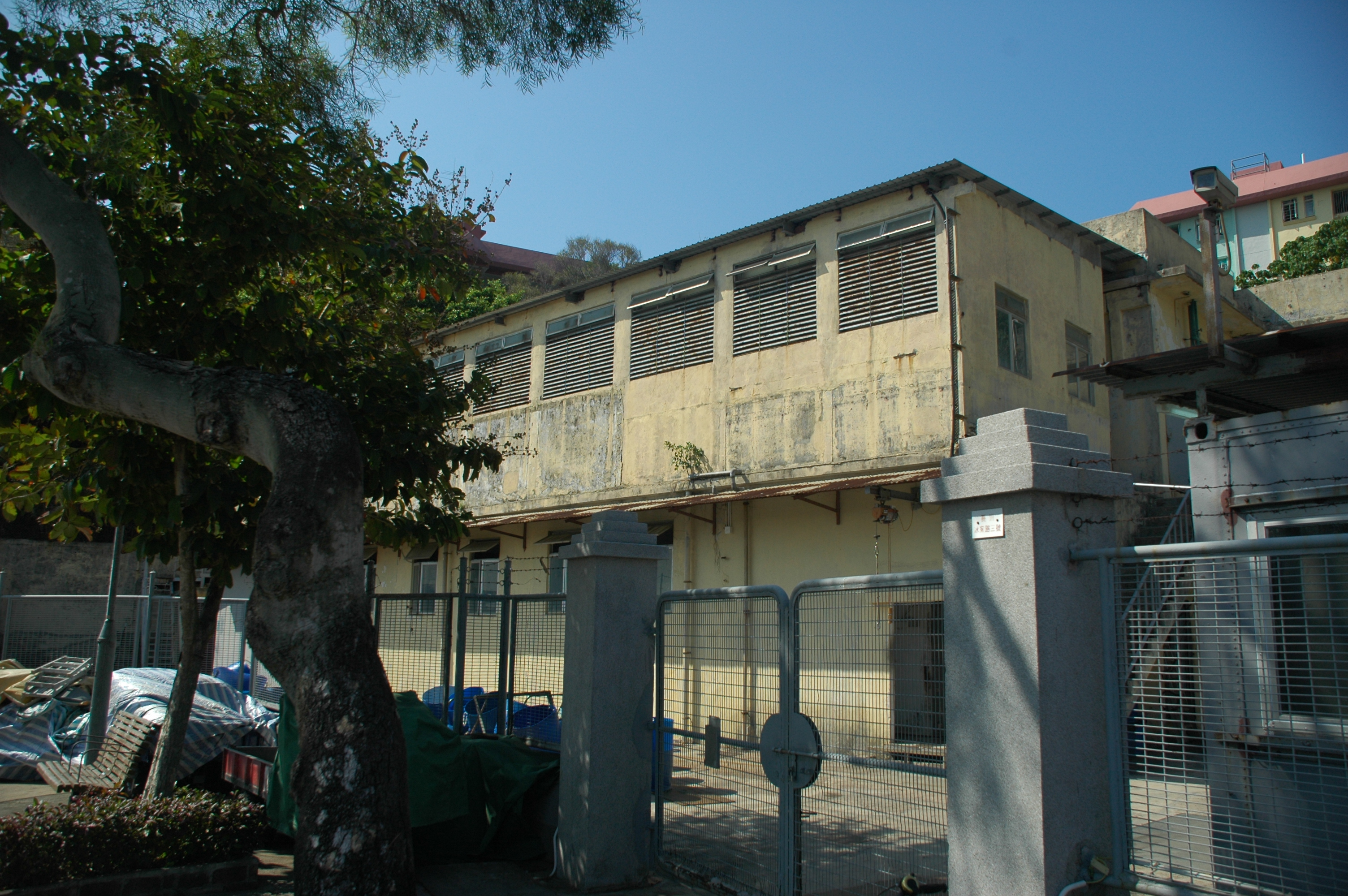 Tsit On Ice Factory, 3 Ping Chong Road, Cheung Chau, Hong Kong.